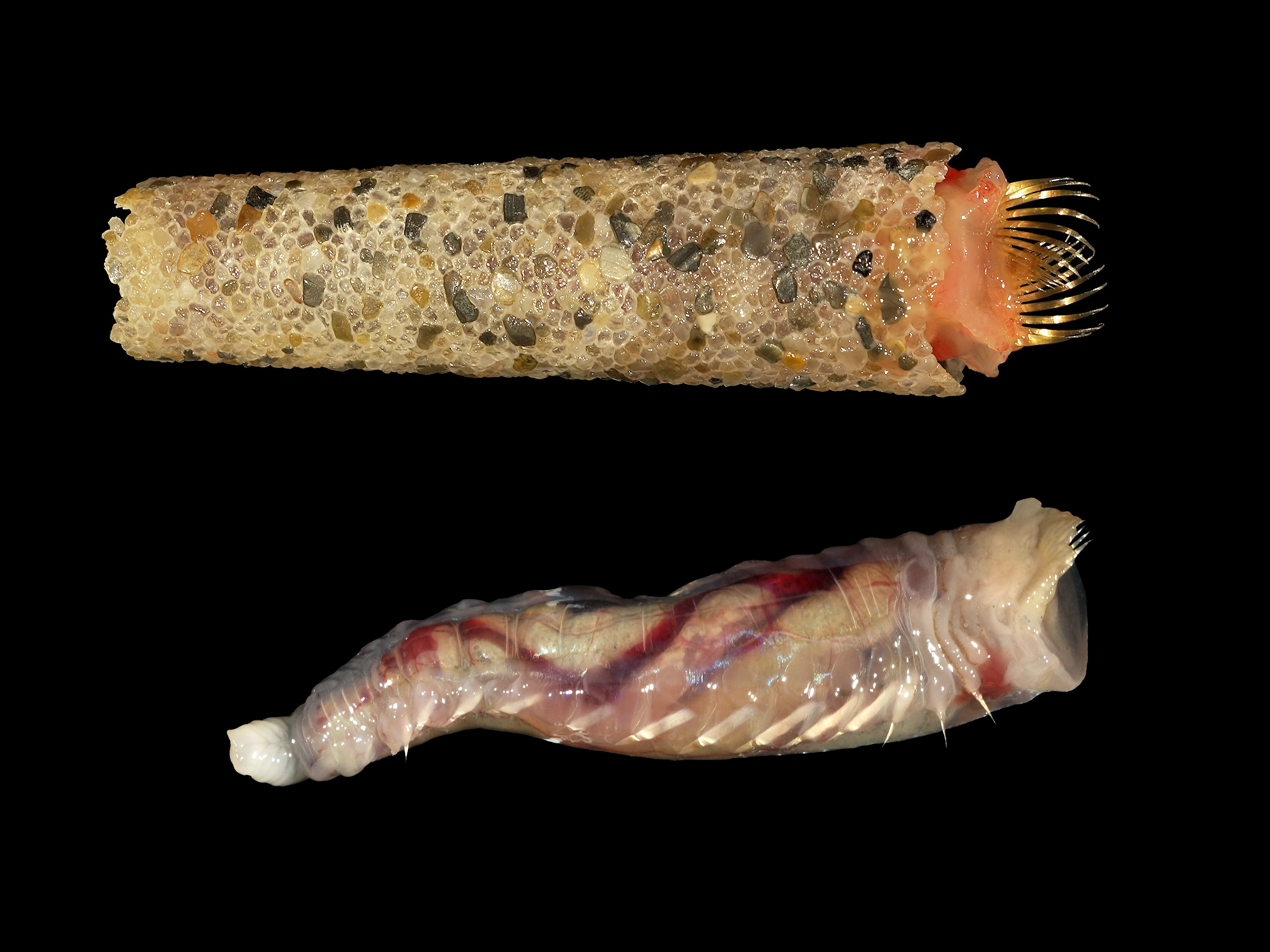 The trumpet worm, a tubicolous polychaete from the Oostendebank in the Southern North Sea, Belgium Total length: ~ 28 mm Length of the worm: ~ 25 mm